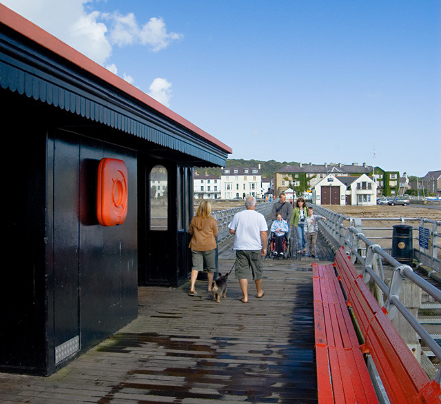 Beaumaris pier Looking inland from the end of the pier. to brief history of the structure.